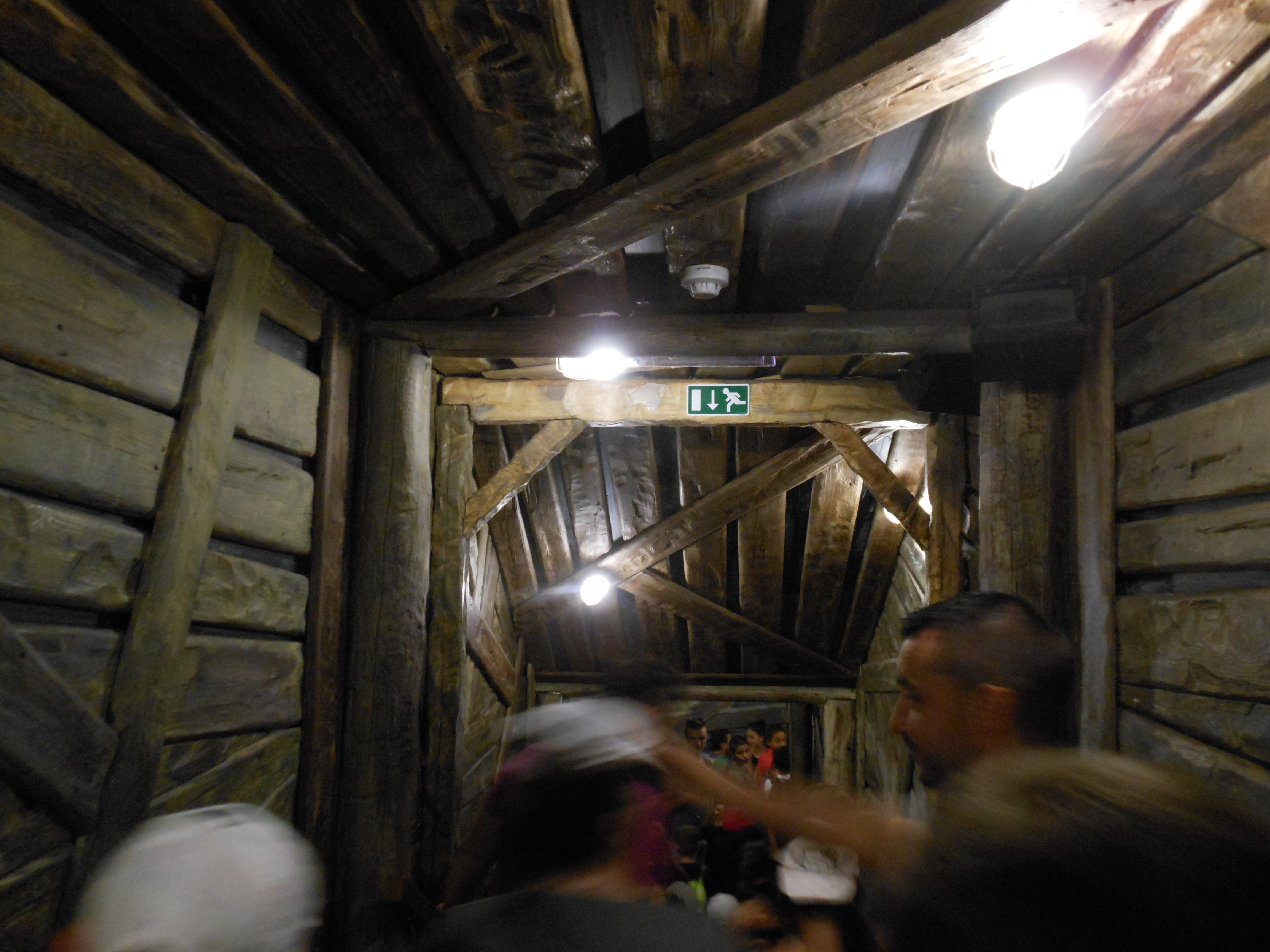 The indoor waiting queue of the darkride coaster Huracan at theme park resort Bellewaerde, Ypres, Flanders, Belgium.